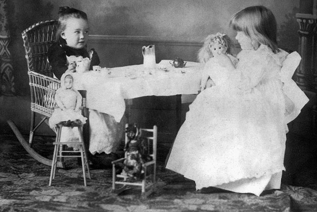 Two young girls play "tea party" with their dolls, Nebraska, 1890s